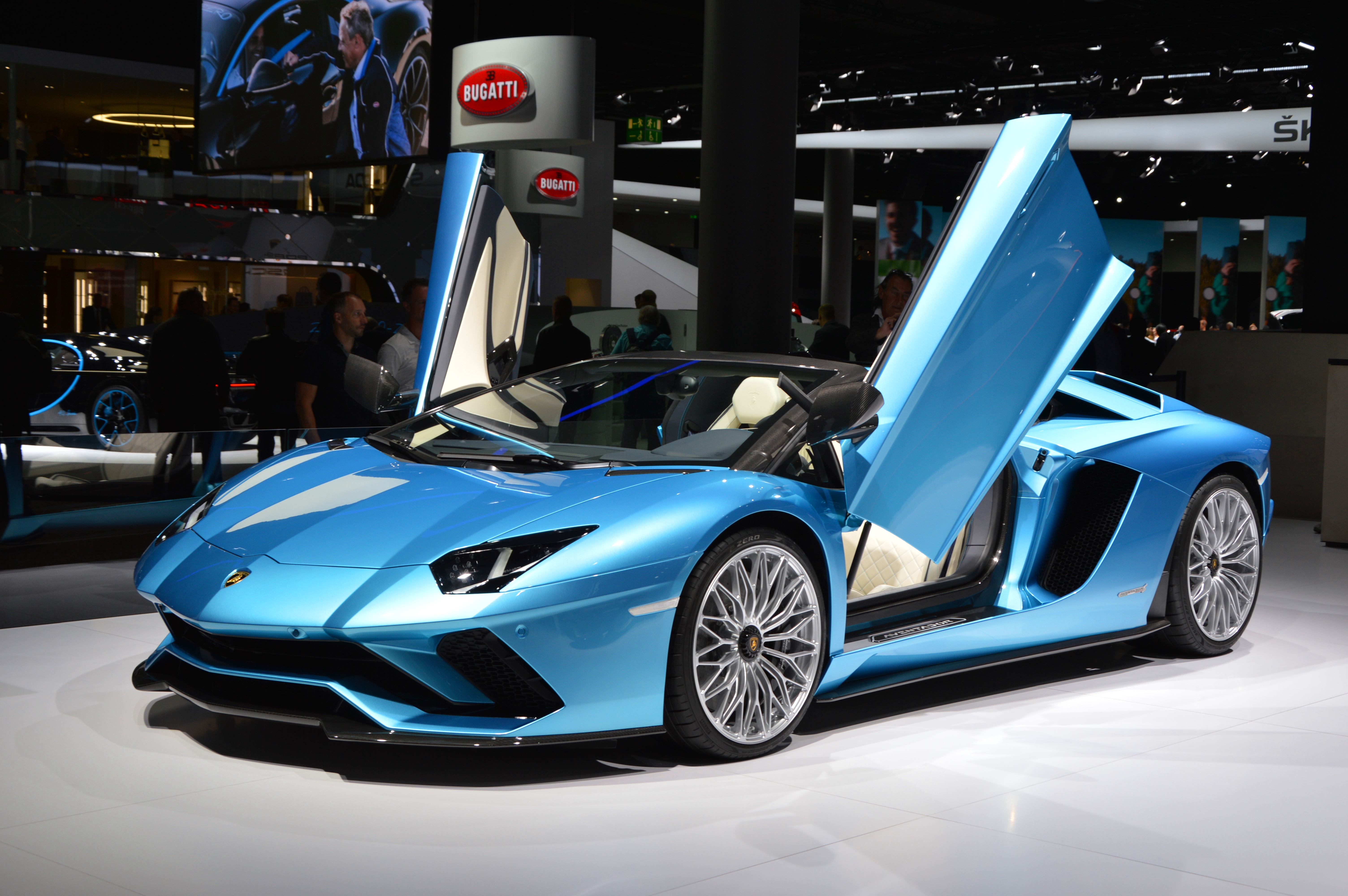 Photo taken at IAA 2017: Lamborghini Aventador S Roadster 6,5 l engine / 12 cylinders / Power: 740 HP at 8400 RPM / 7 speed ISR / 4 wheel drive with haldex